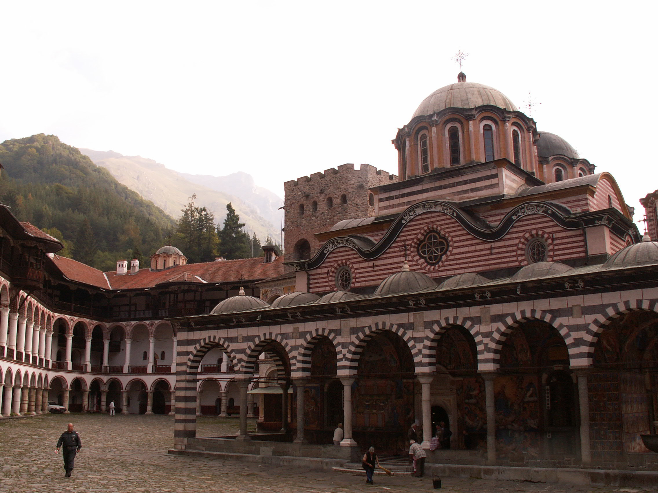 Church of the Nativity in the Rila Monastery